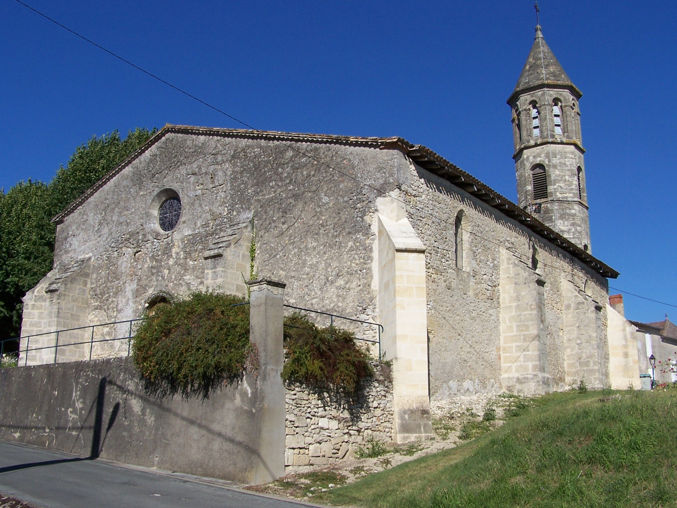 Church of Saint-Vivien-de-Monségur (Gironde, France)